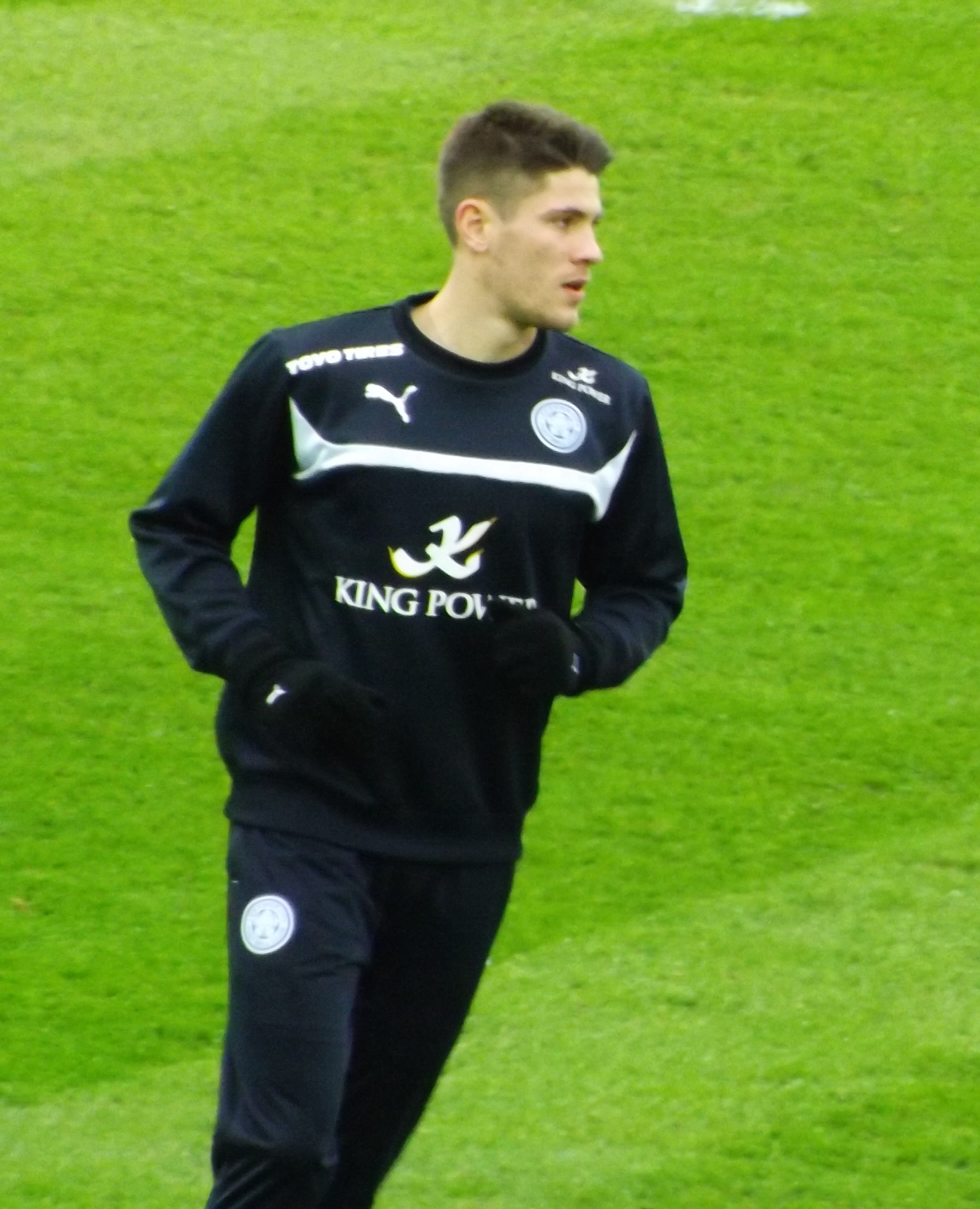 Andrej Kramarić playing for Leicester City F.C. against Crystal Palace.